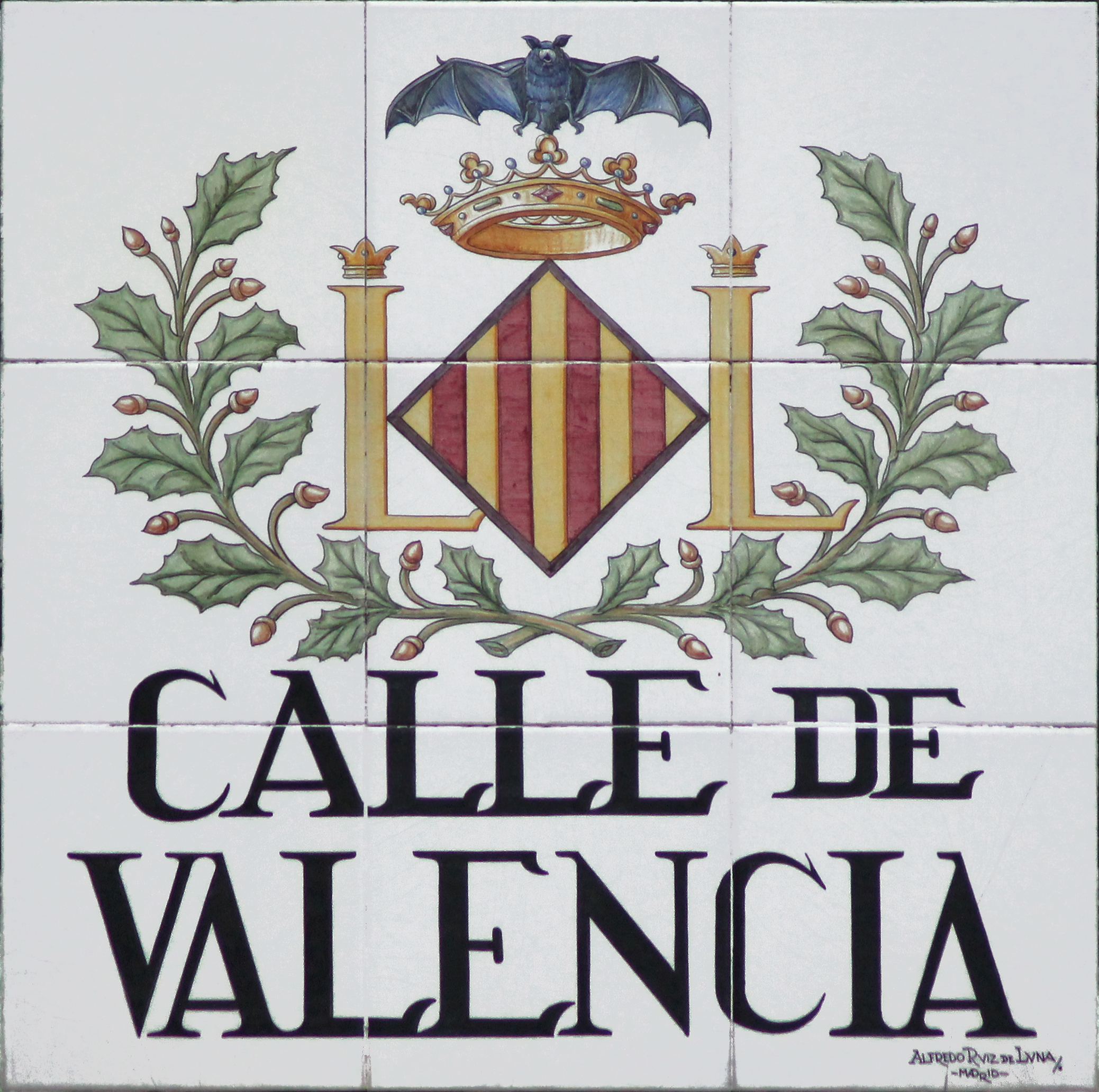 Sign of Calle de Valencia (street) in Madrid (Spain).